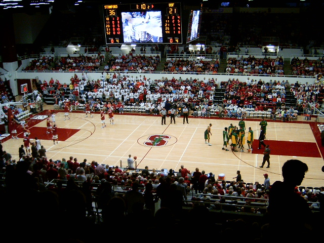 Interior of Maples Pavilion, Stanford University. Taken by Dennis Marzan on November 23, 2005. Category:Stanford University images